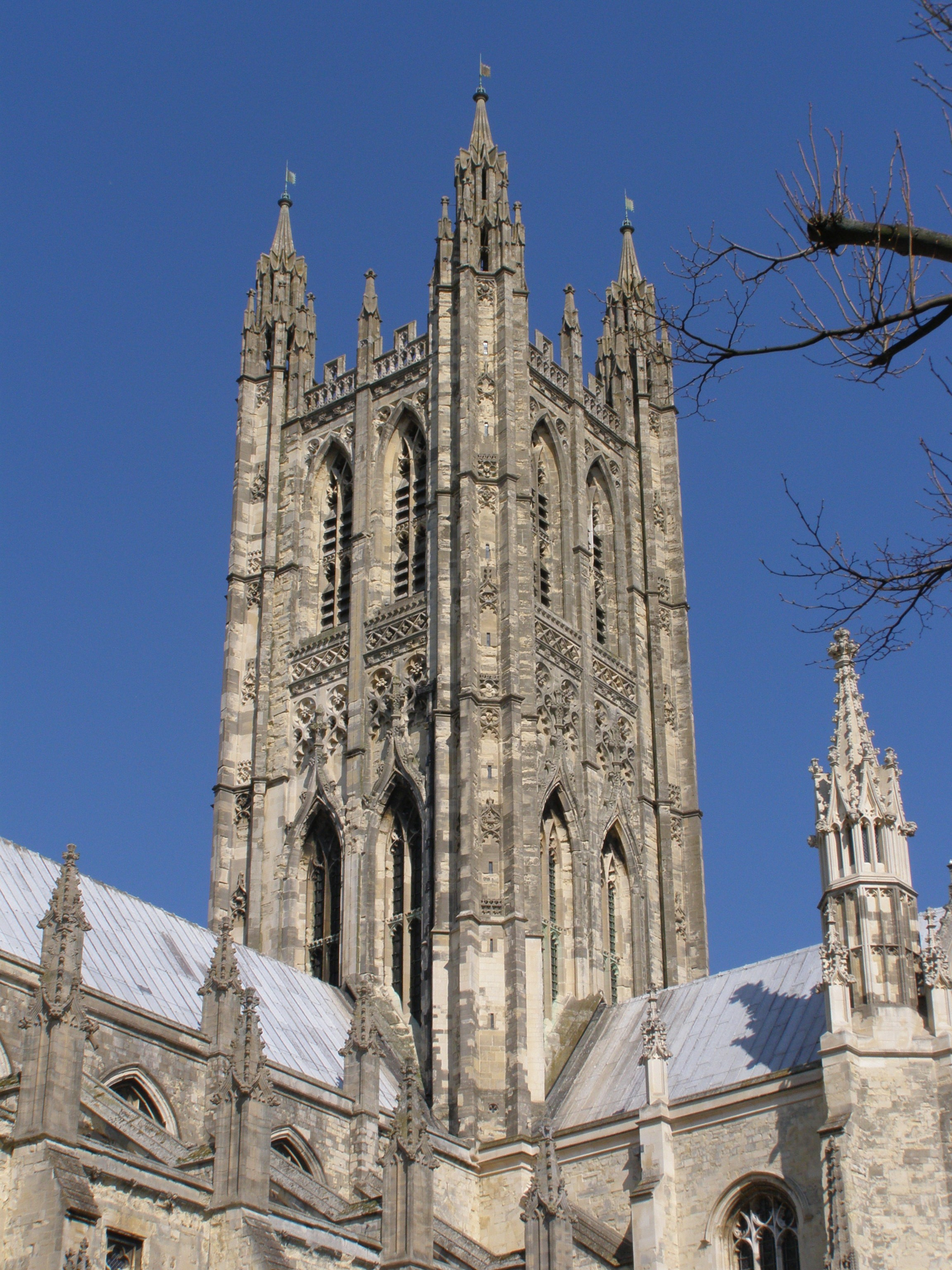 Tower of Canterbury cathedral